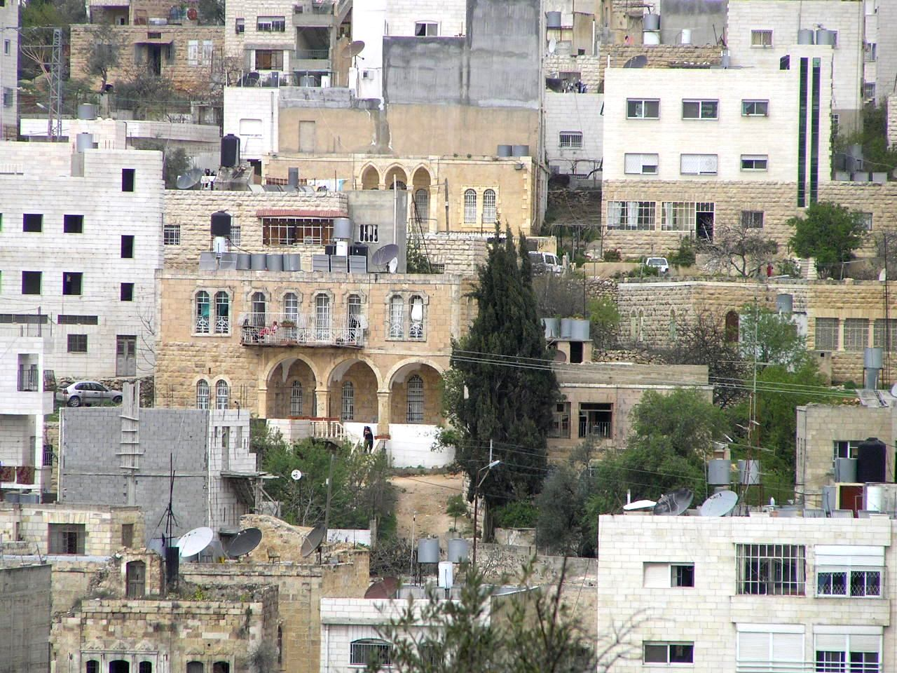 Hebron.